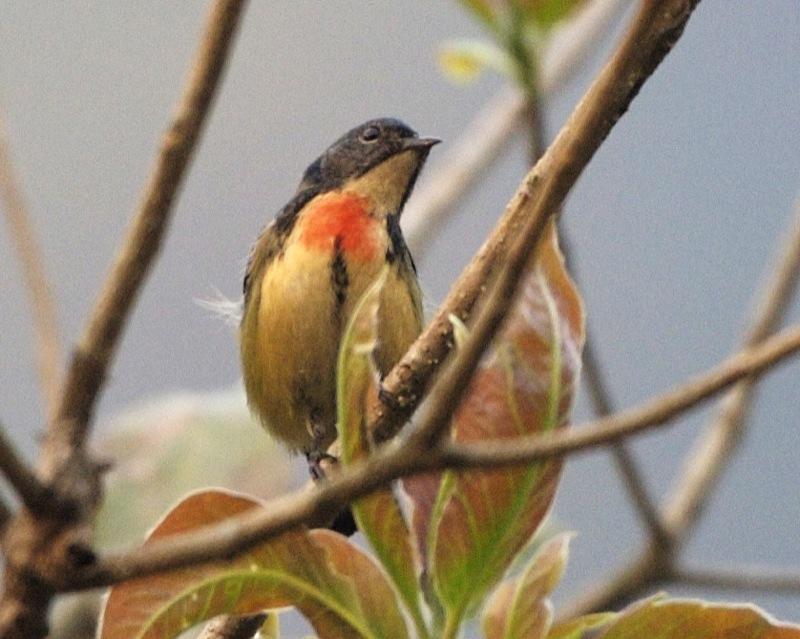 Fire-breasted Flowerpecker Dicaeum ignipectus (Clements 5th. ed) Dicaeum ignipectum (Clements 6th. ed) Nominate race Dicaeum ignipectus ignipectus Pokhara, Nepal 13th. March 2009 690V3954